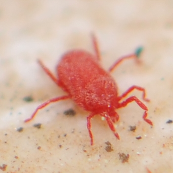 The picture is showing the mite Balaustium.